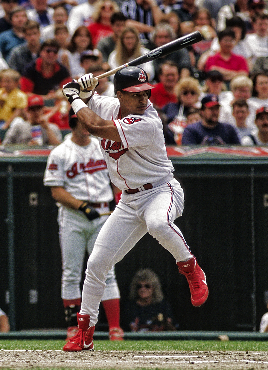 The California Angels meet the Cleveland Indians in a game @ Jacobs Field on June 8, 1996. The batter is Manny Ramirez. Check out the box score @